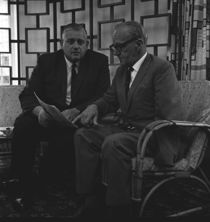 Leader of the Opposition Norman Kirk and Auckland Central MP Norman Douglas